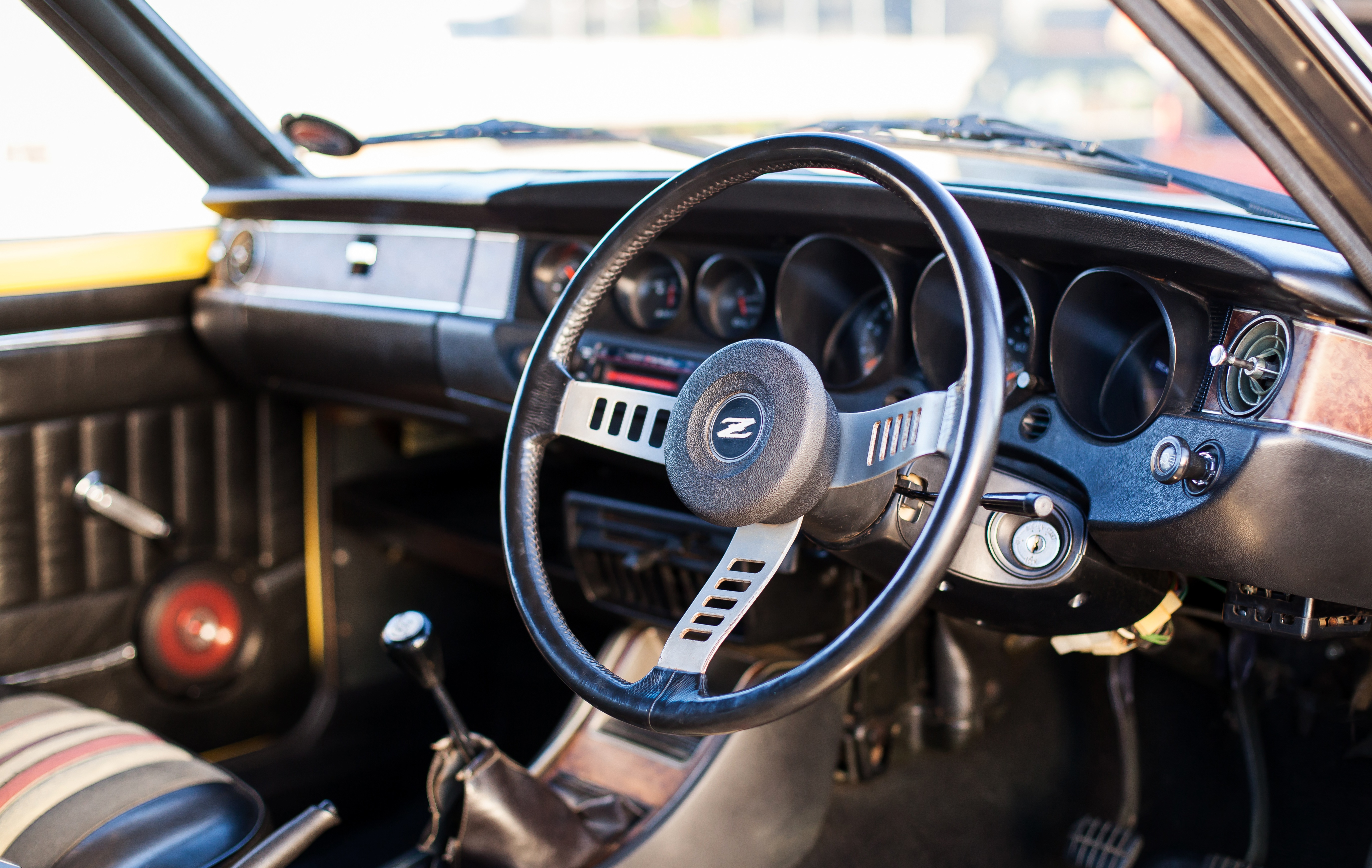 Canary yellow Nissan-Datsun (B210) 160Z Sports Coupe, South African. Dashboard with round gauges. Courtesy of Lee-Ann Vigus - &